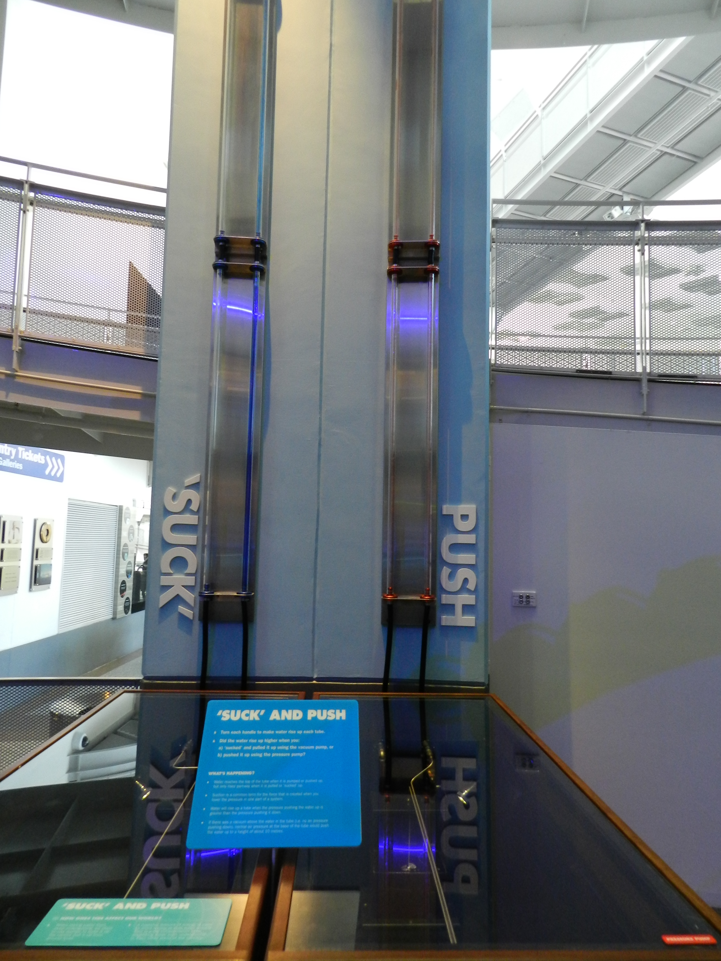 suck and push experiment at Questacon – the National Science and Technology Centre